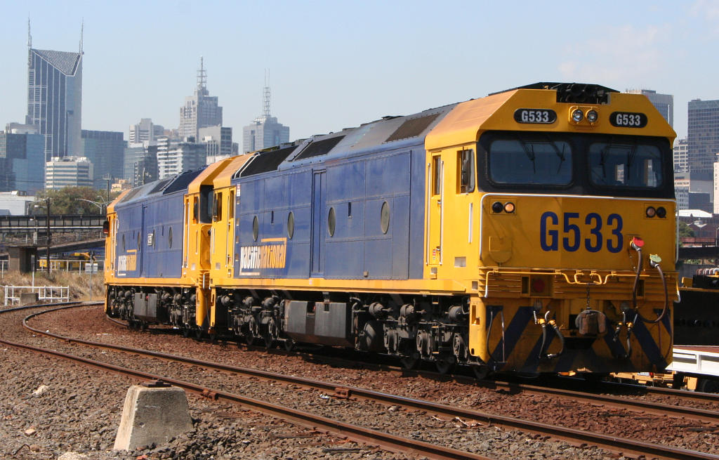 Pacific National G class locomotives G533 and G5??